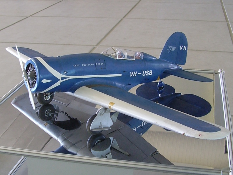 Model of the Lady Southern Cross, displayed next to the Southern Cross near Brisbane Airport.